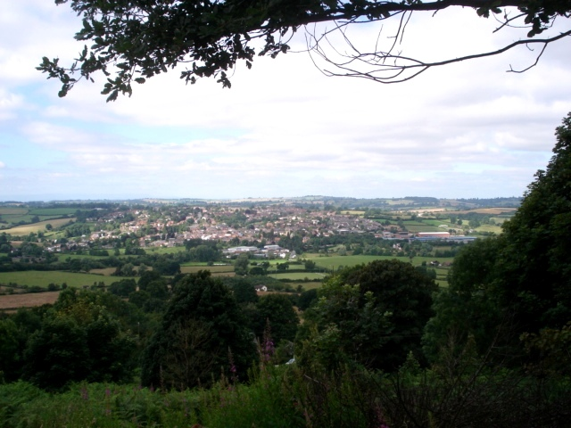 Bromyard from Bromyard Downs: Looking westwards from Bromyard Downs provides a view of the whole town.